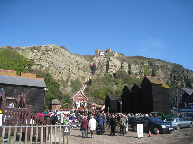 East Cliff Lift Re-opening